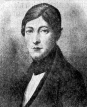 Photo of German mathematician Zacharias Dase.